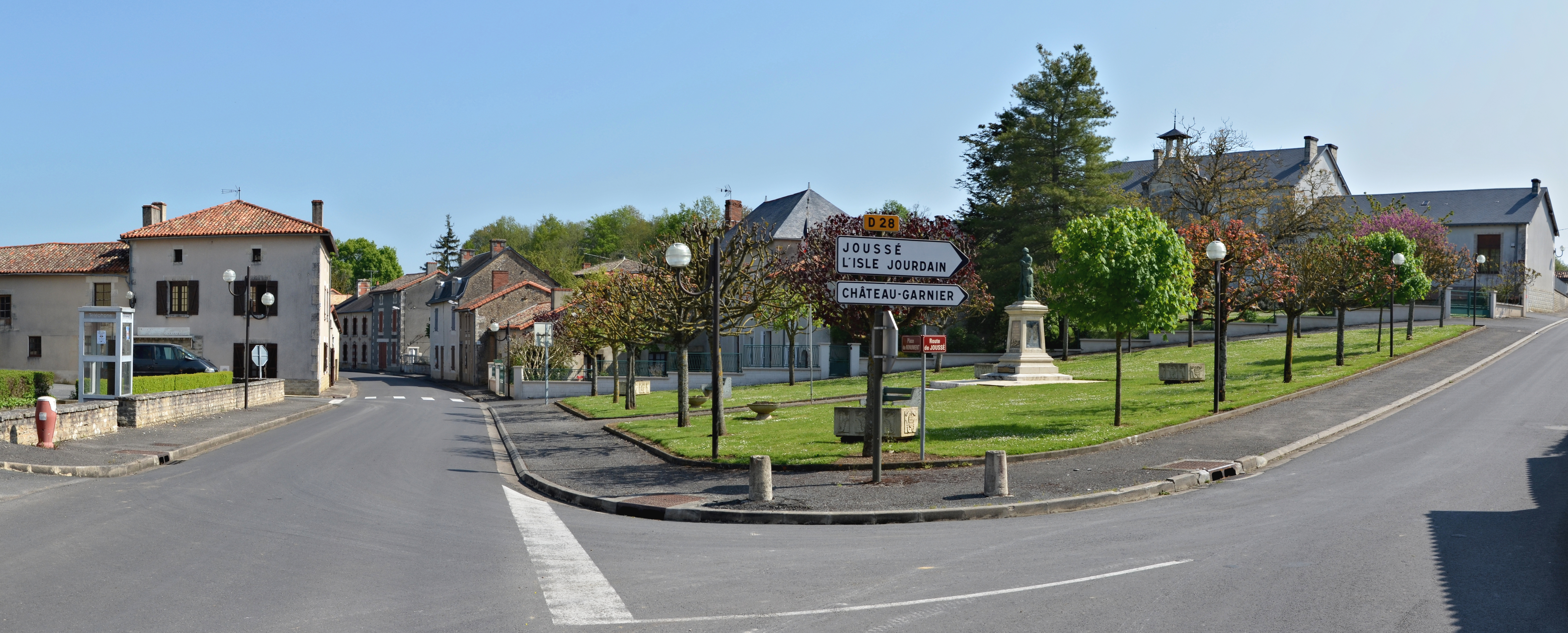 Village main street and War memorial square, Saint-Romain, Vienne, France.